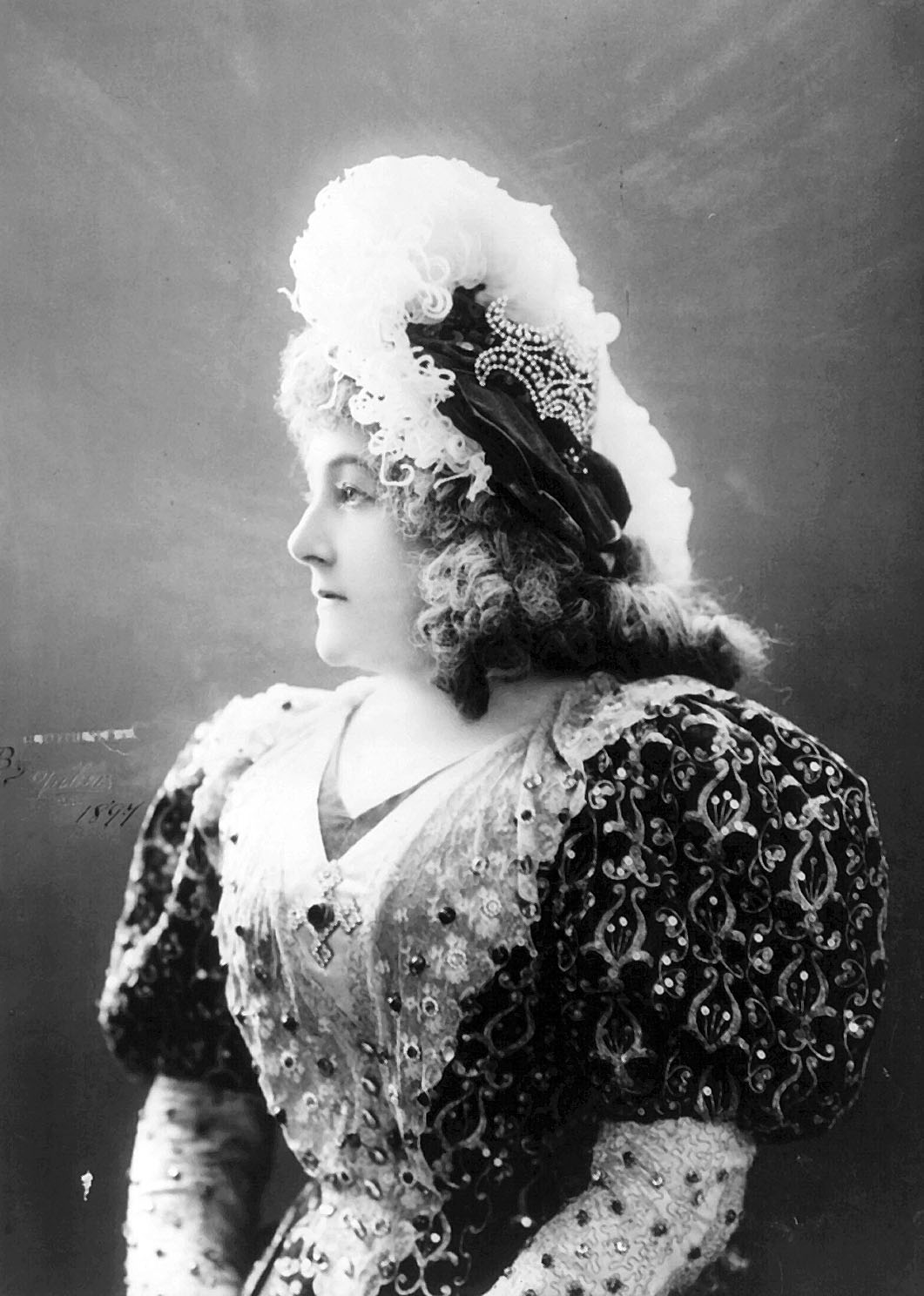 Actress Fanny Davenport